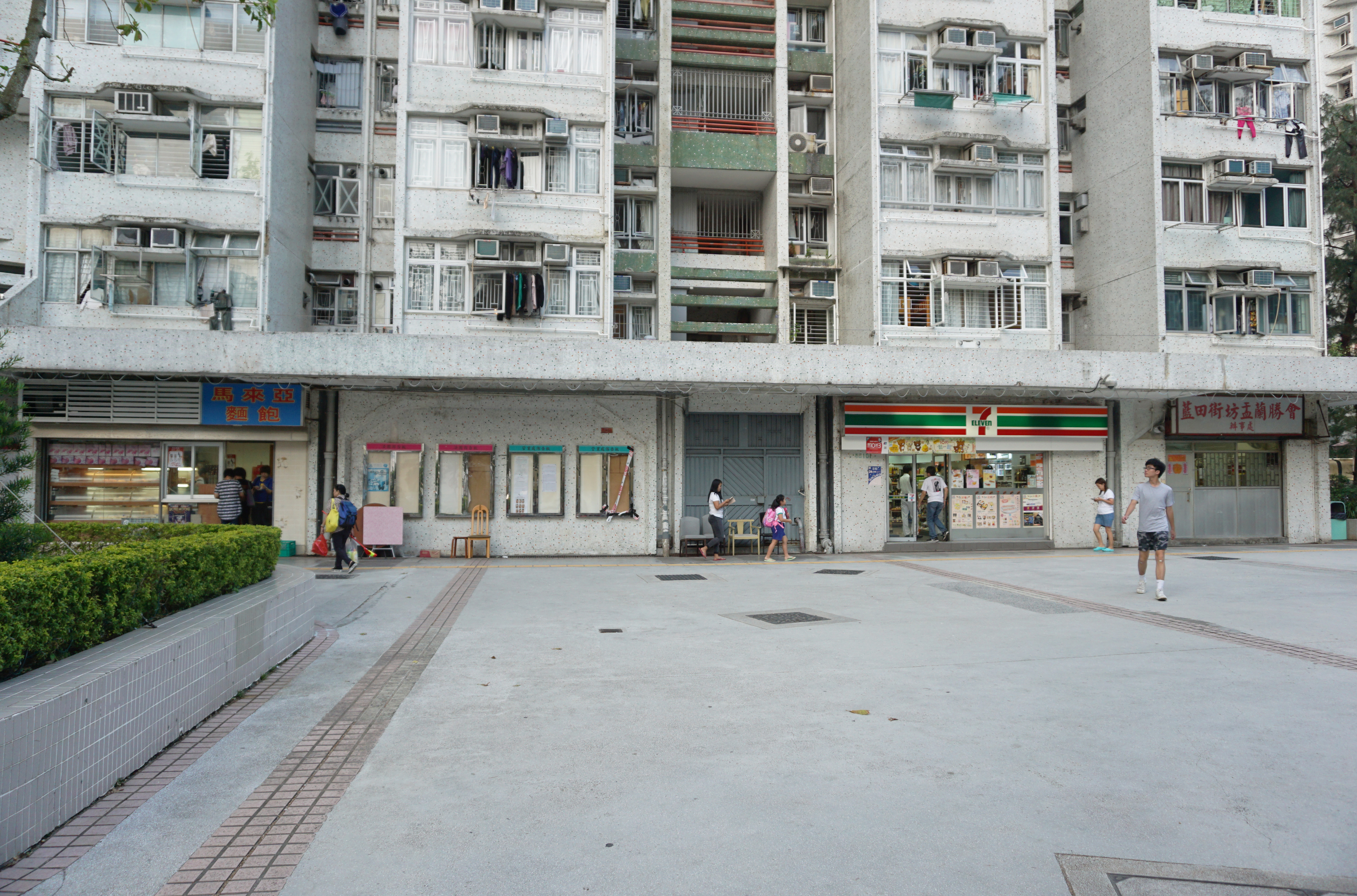 Hing Tin Estate in Lam Tin, Hong Kong.